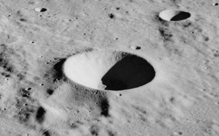 Oblique view of Pickering crater, facing north, on the moon.